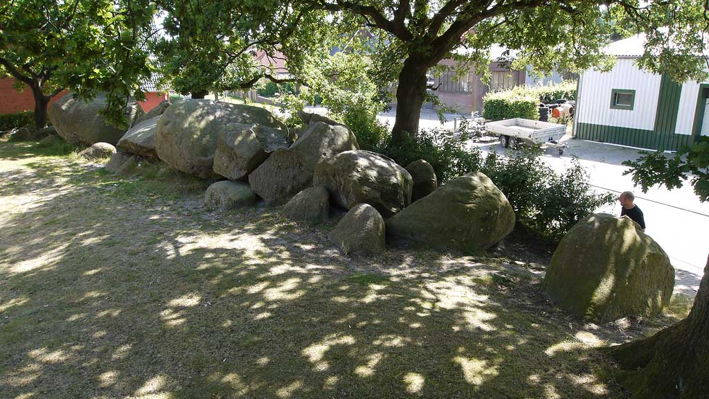 Steenhus von Börger